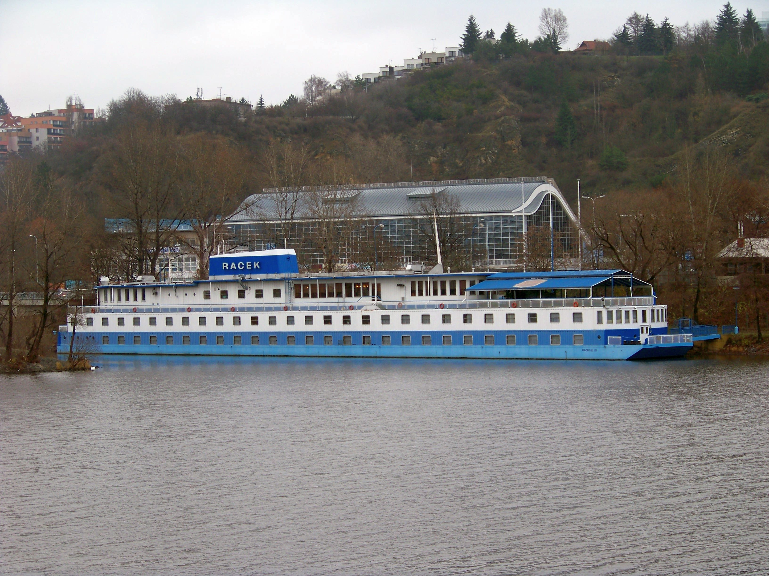 Prague, Podolí, the Czech Republic. Racek Botel and a swimming stadion.